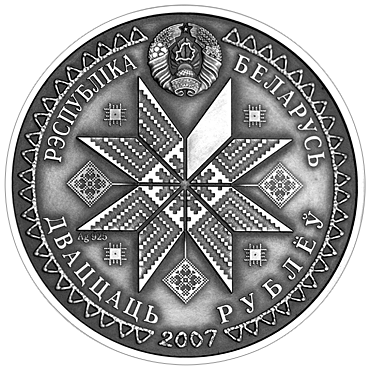 "Maslenitsa (Pancake week)". Silver commemorative coins, denomination: 20 rubles